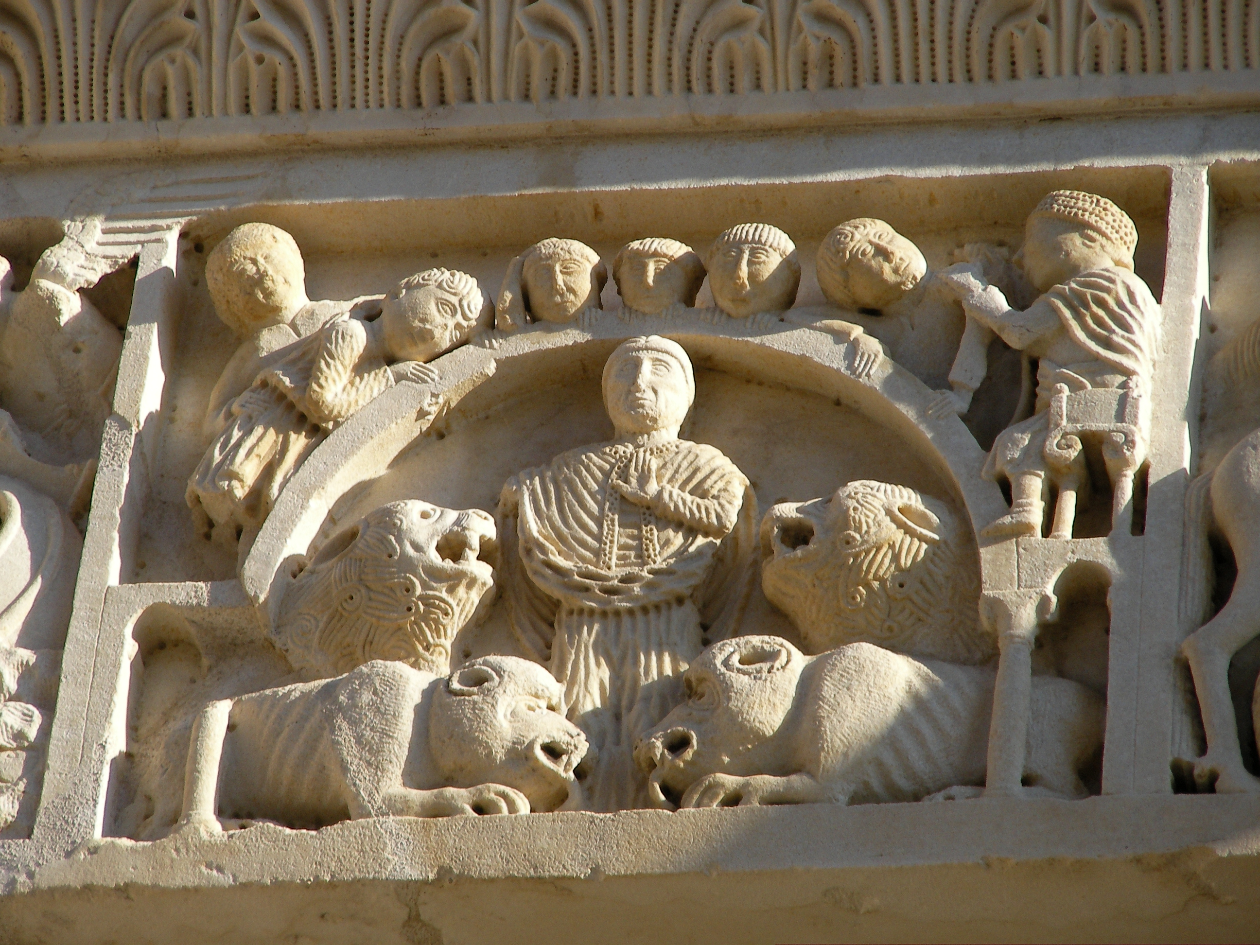 St. Cerbonius, Cathedral of Massa Marittima, Tuscany/Italy.